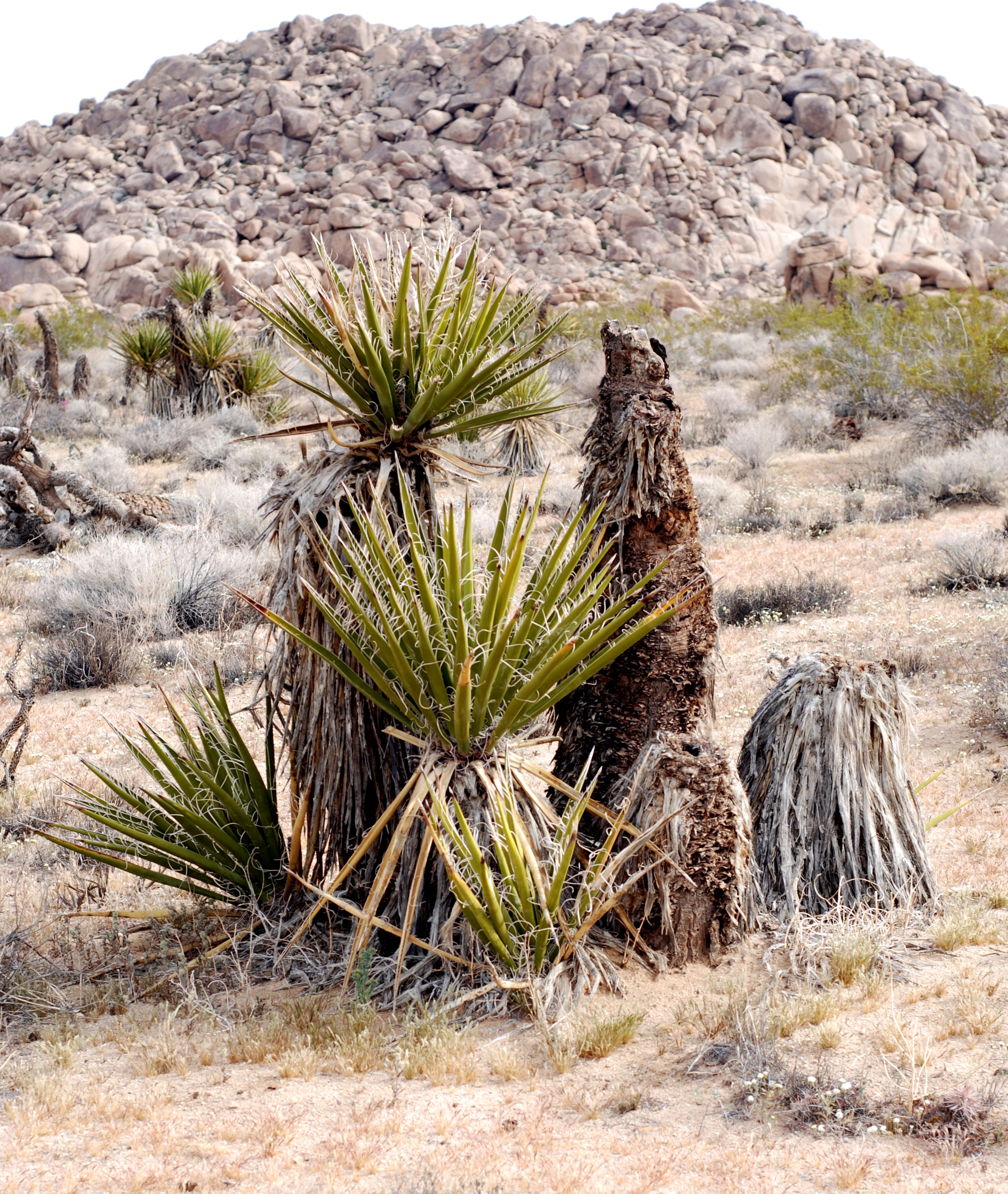 Mojave yucca (Yucca schidigera) in Joshua Tree National Park